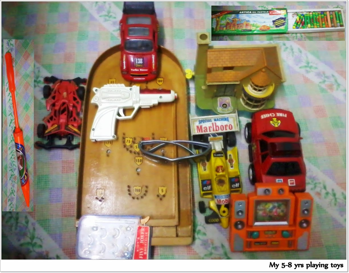 toys